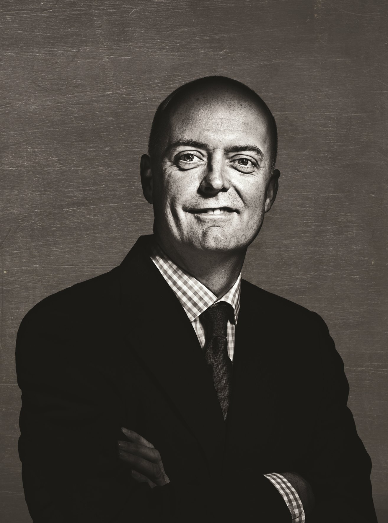 Professor Roger Reed